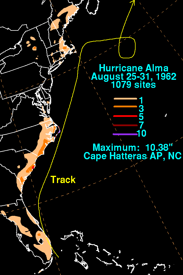 Storm total rainfall map of Hurricane Alma during August 1962.